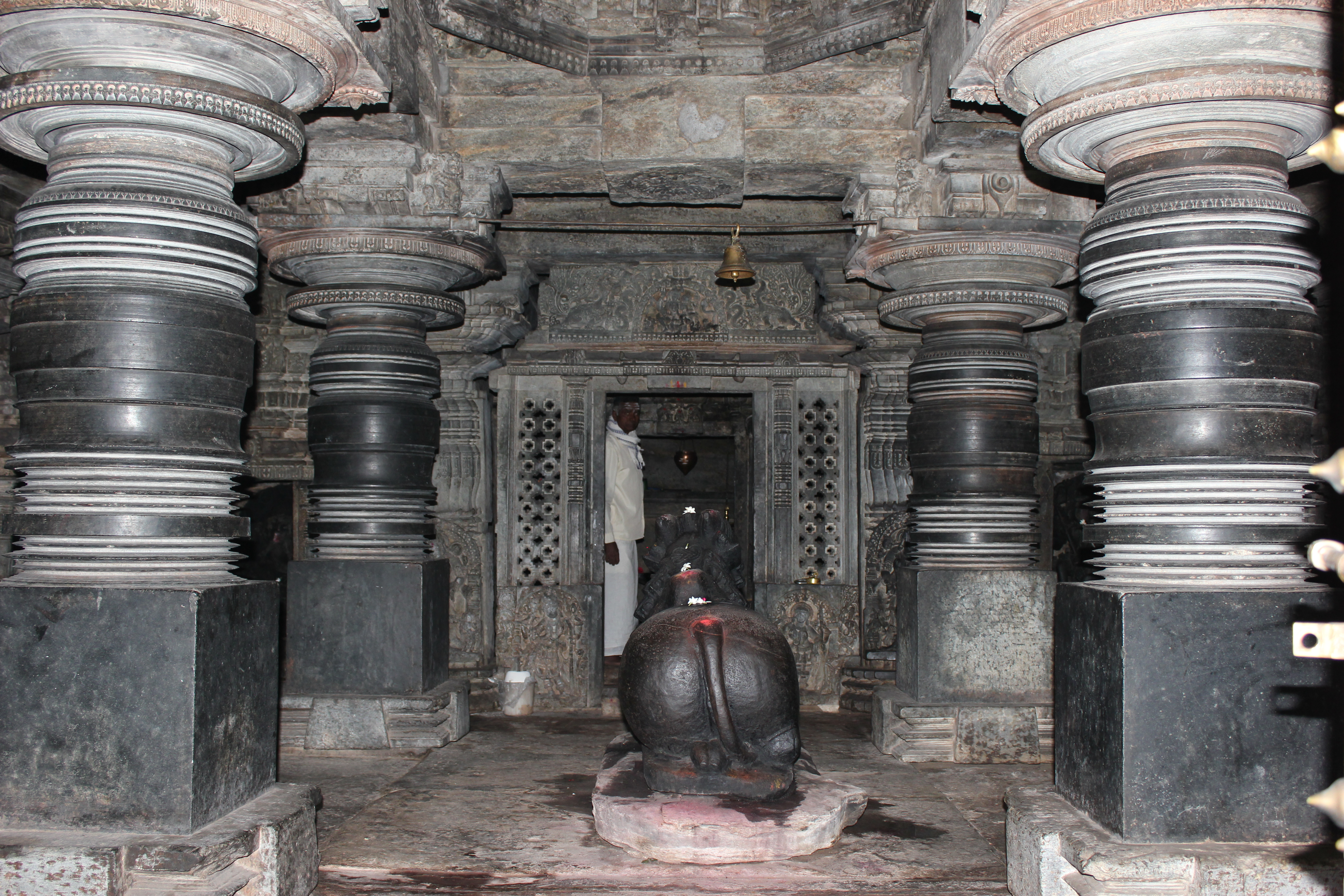 This photograph was taken by me at Mosale town in Hassan district of Karnataka state, India. Mosale is home to the twin temples built by Hoysala Empire King Veera Ballala II in 1200 A.D.; the Nageshvara and Chennakeshava temples.